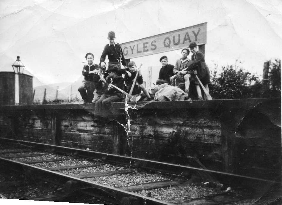 Boys waiting on the train. Gyles Quay, Louth, Ireland.